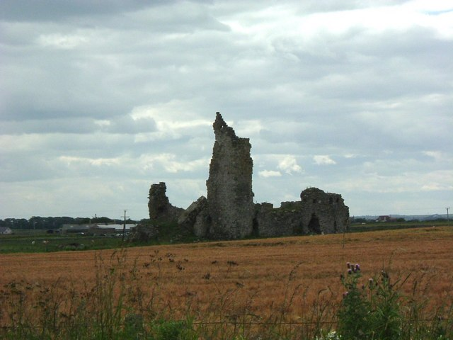 Remains of Inverallochy Castle